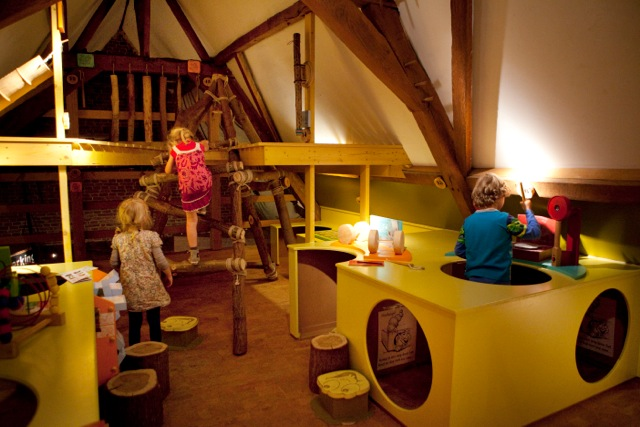 Play attic